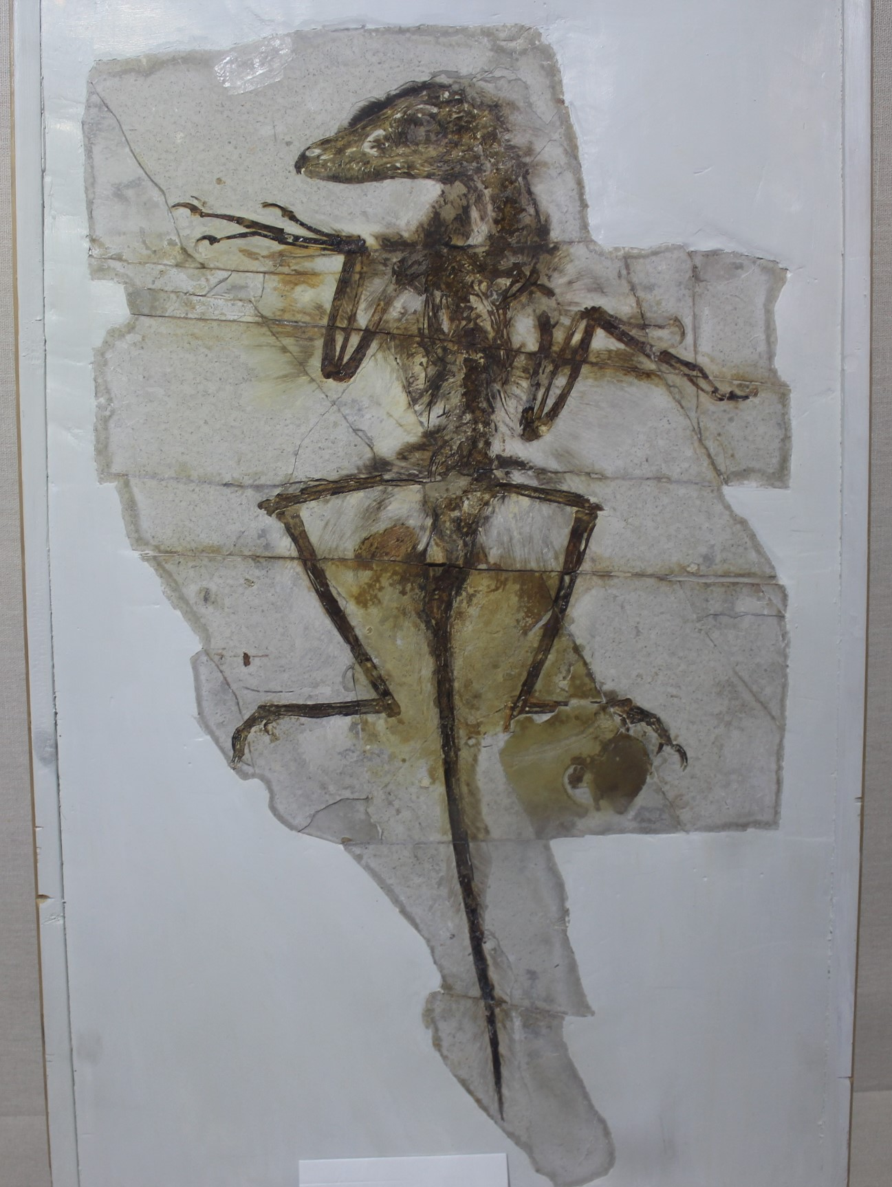 Sinornithosaurus specimen NGMC 91 ("Dave") on display at the Geological Museum of China.